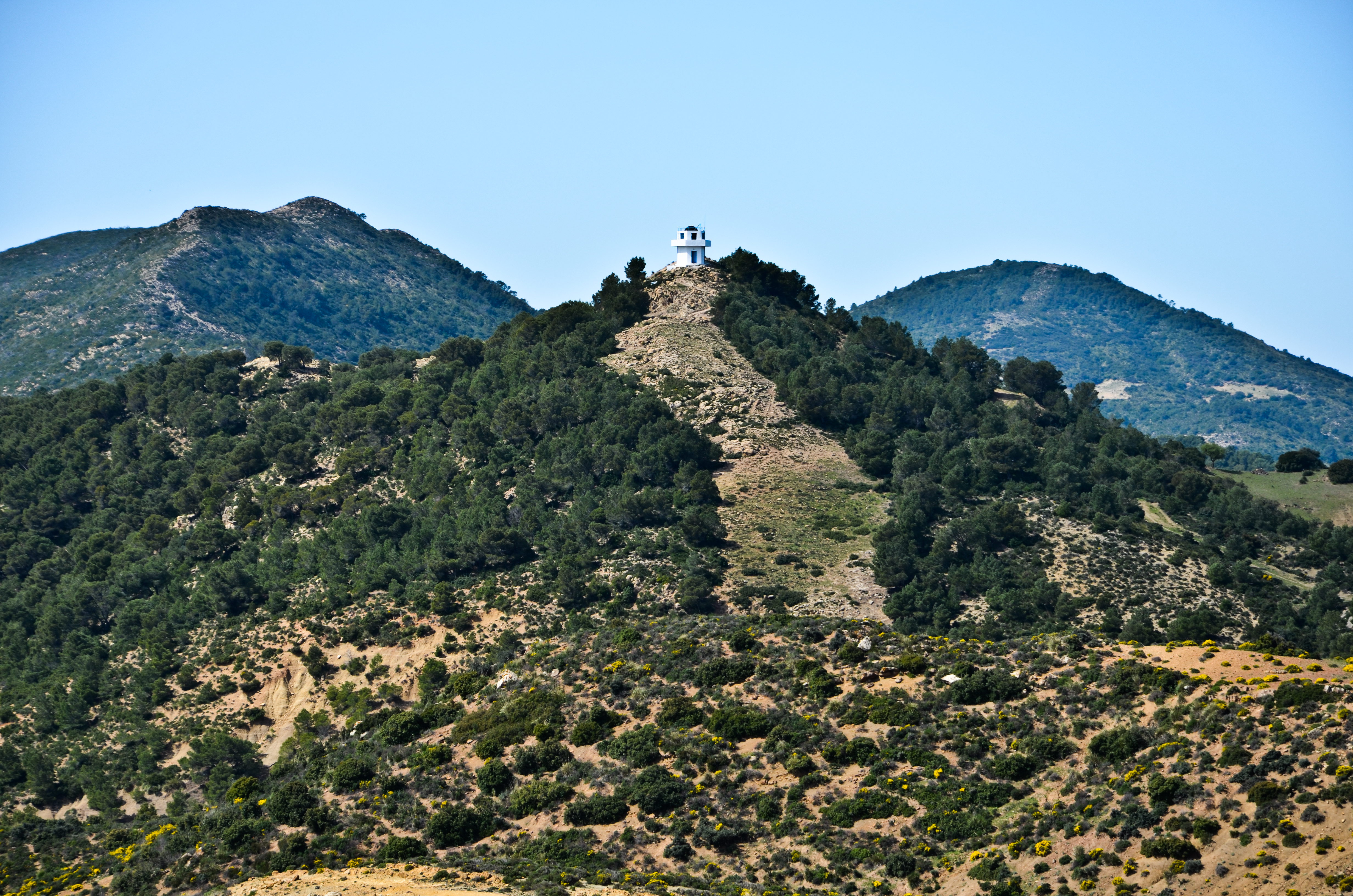 zaghouane